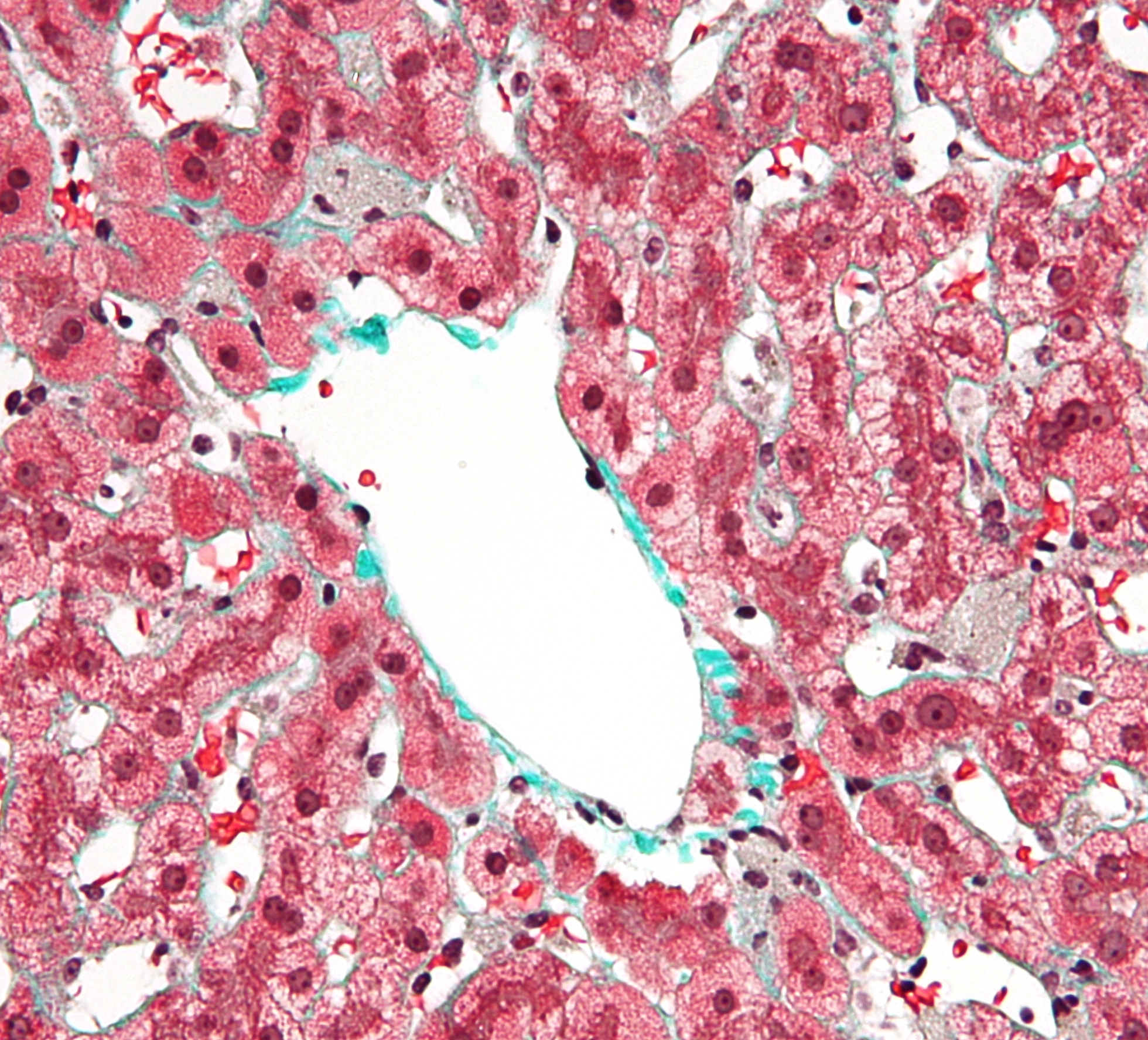 High magnification micrograph showing Kupffer cells, in the setting of a resolving congestive hepatopathy. Liver biopsy. Trichrome stain. See also Image:Congestive hepatopathy intermed mag.jpg Image:Congestive hepatopathy high mag.jpg - uncropped version of this image.